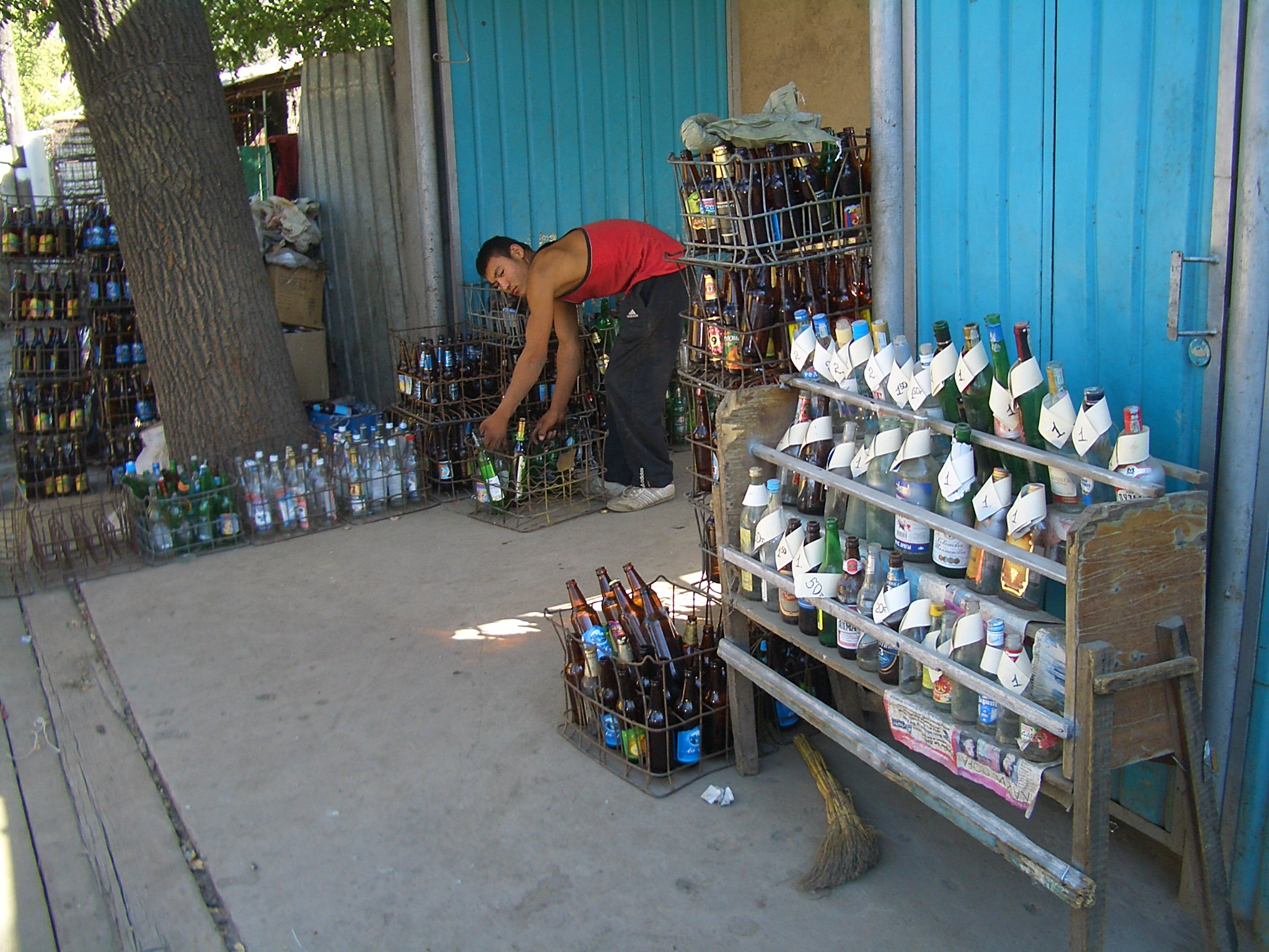 A manned glass bottle collection point on the curbside near Alamedi Bazaar in Bishkek. On a rack, sample bottles are displayed along with the deposit amount for each kind, from 50 tenge (0.5 Kyrgyz som, around US $0.02) to 2 Kyrgyz Som (around US $0.05)